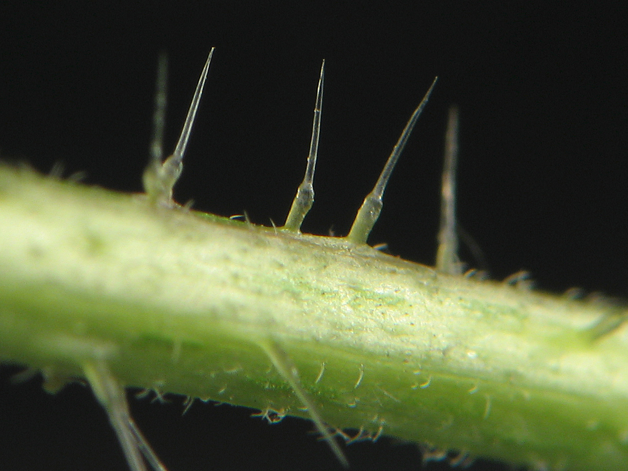 The stinging hairs of Urtica dioica. You can see the round tip (very small) at the very top of the hairs.